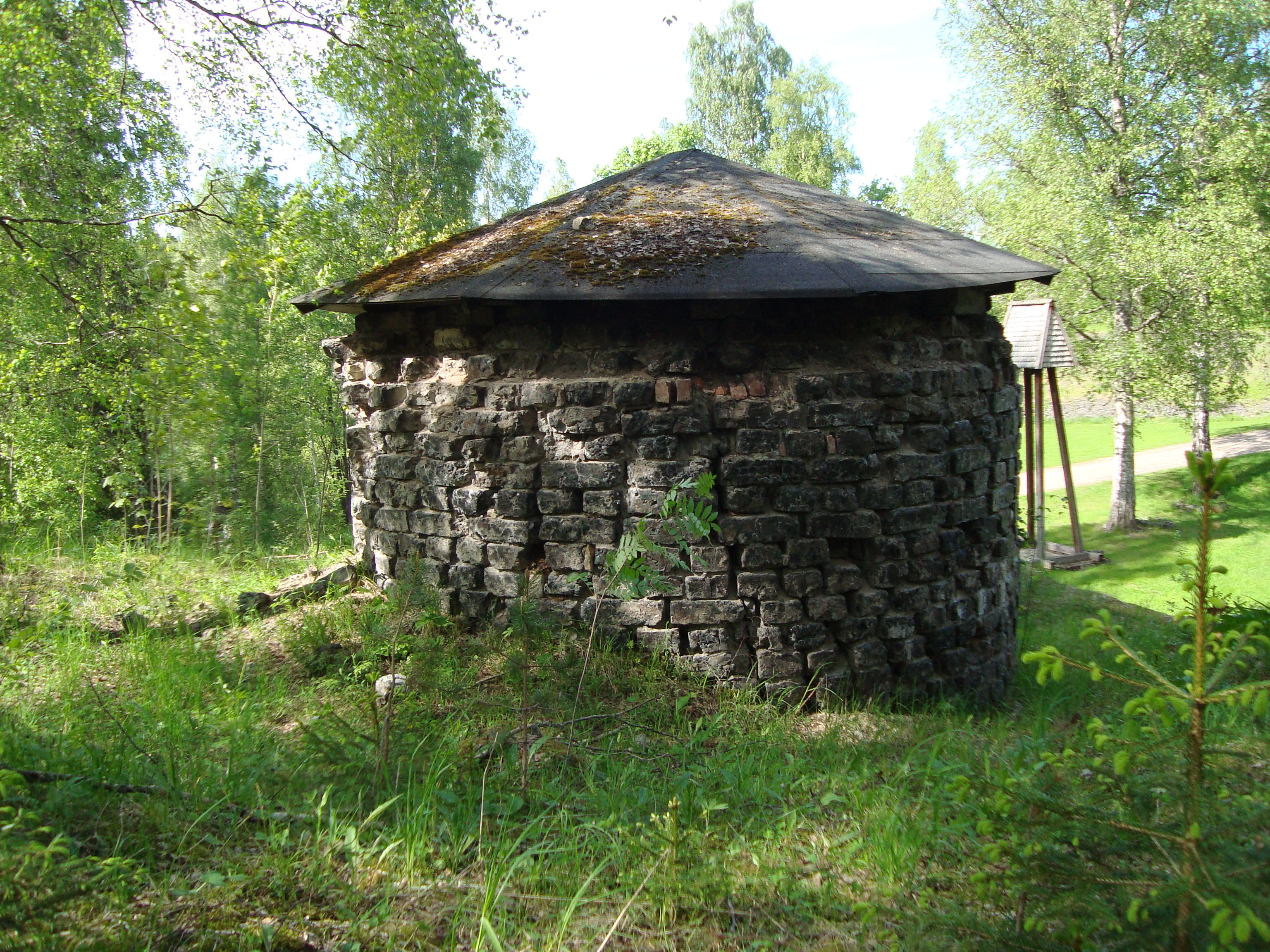 Former iron works of Kratten, Hofors Municipality, Sweden.